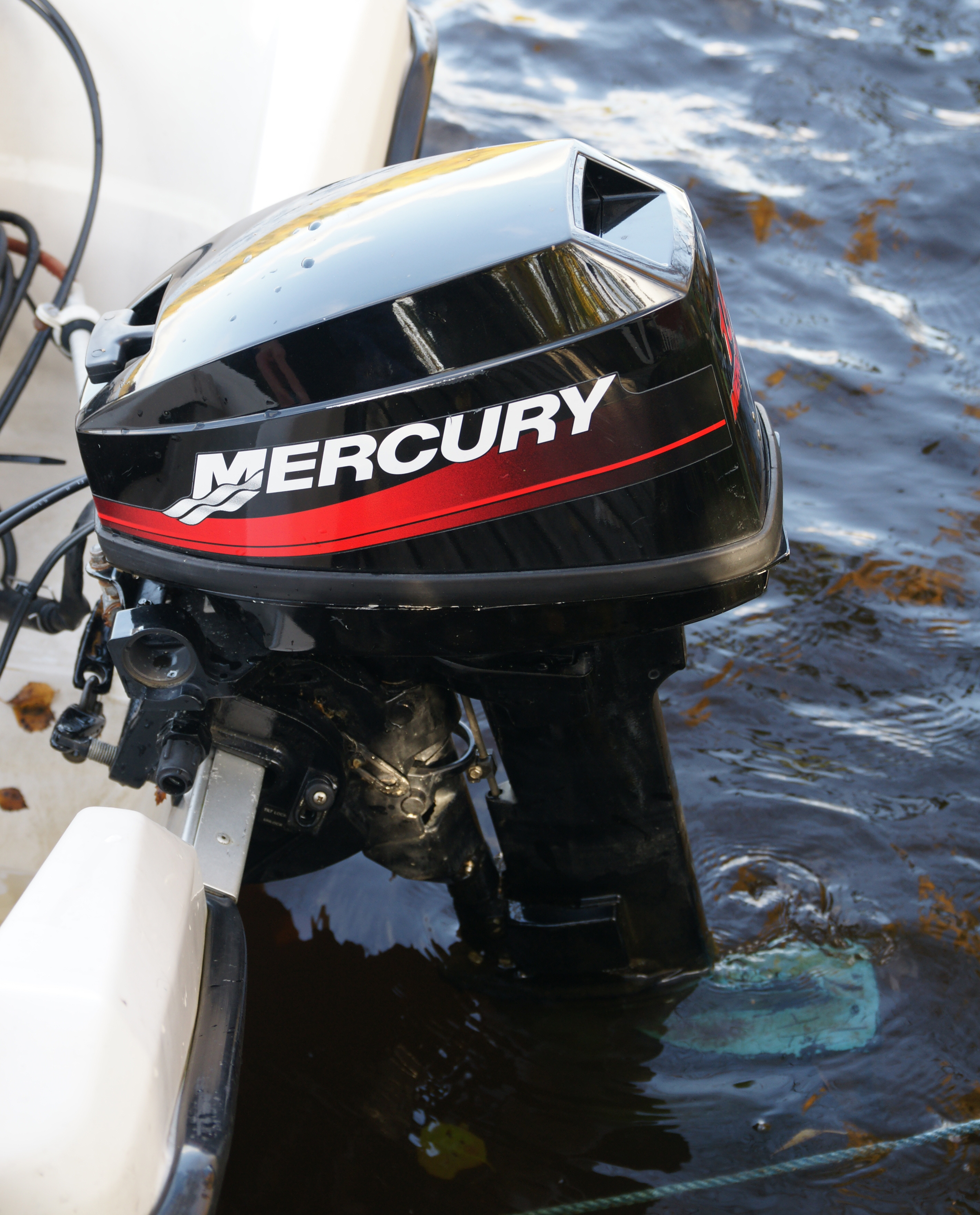 A Mercury Marine outboard motor.